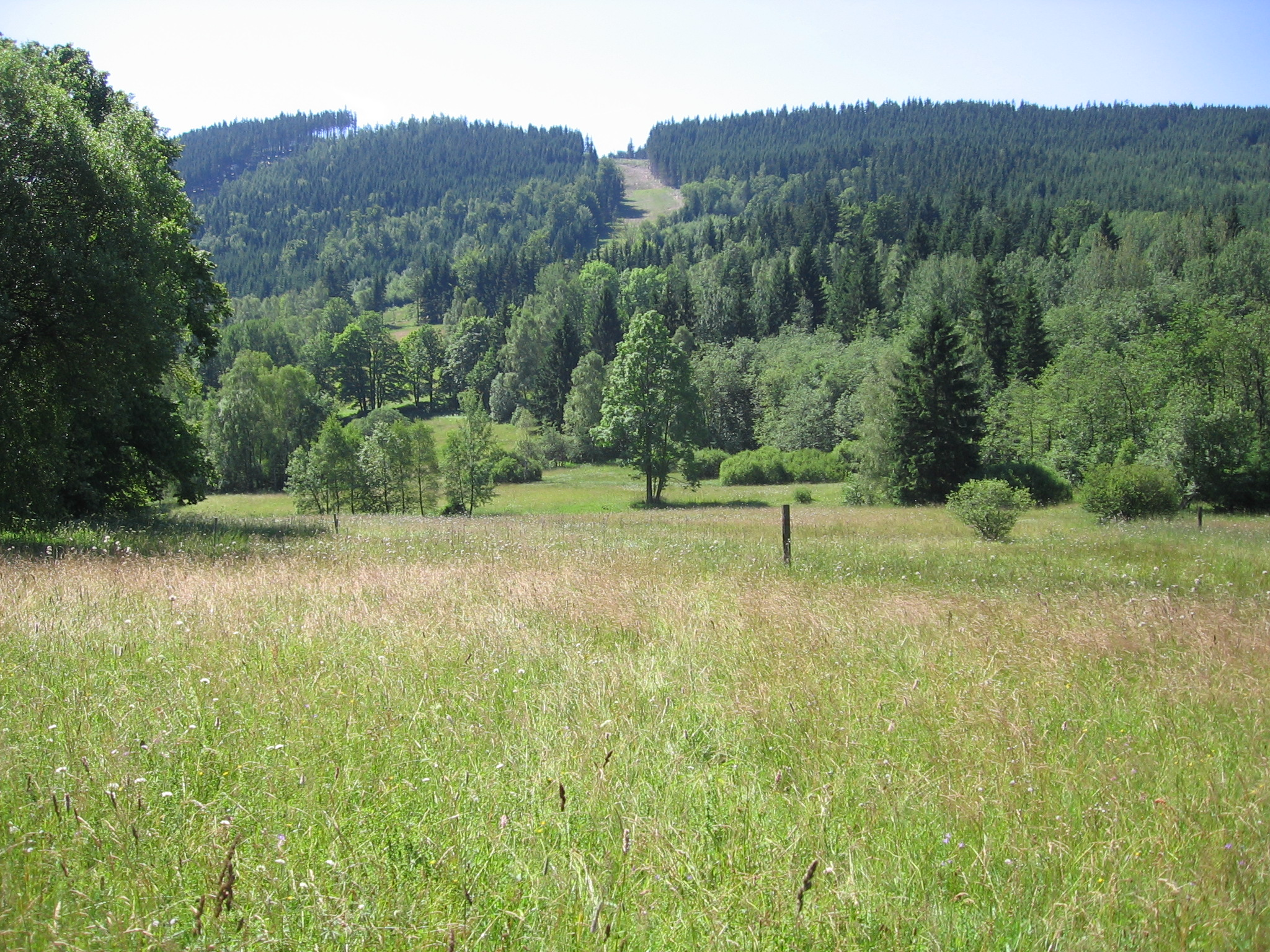 meadow in Přemyslovské sedlo natural reserve, Šumperk district, Czech Republic